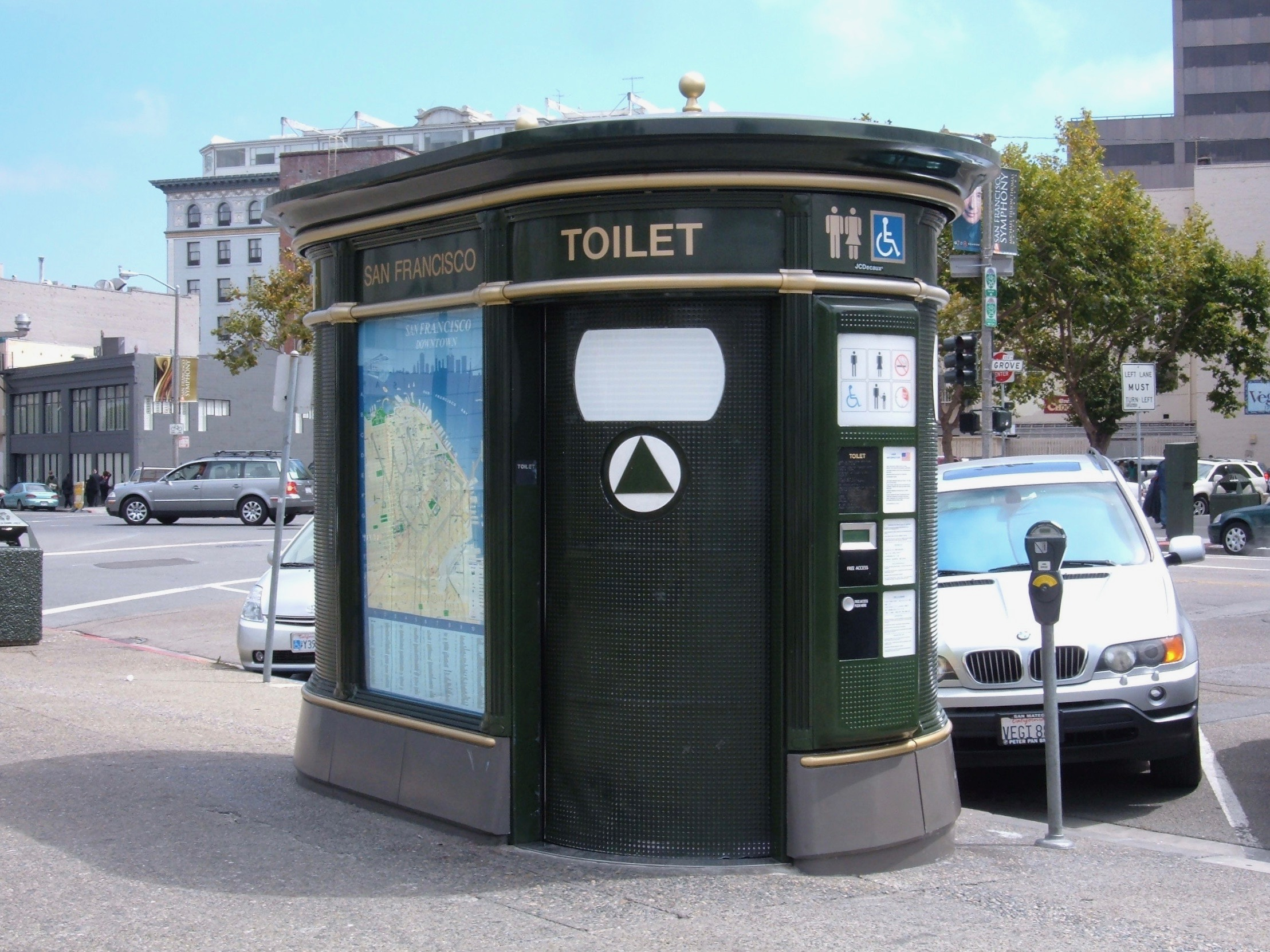 Public toilet located near the Bill Graham Civic Auditorium in San Francisco, California.